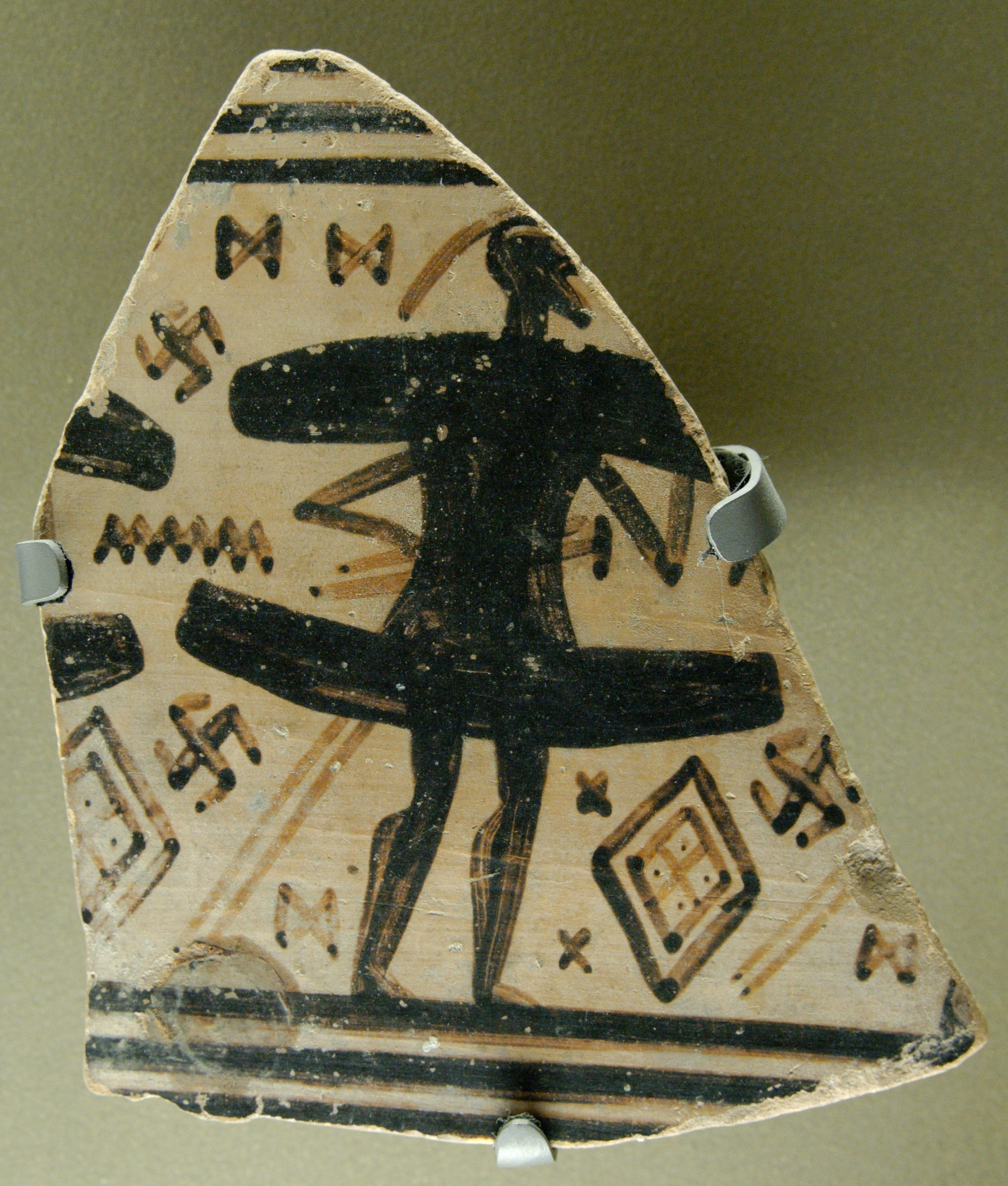 Warriors. Fragment of a krater, ca. 750–725 BC (Late Geometric). From the Dipylon cemetary in Athens.